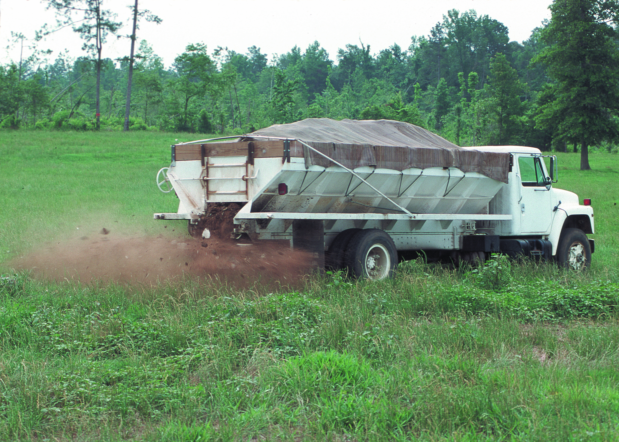 Proper waste management on the farm for environmental protection. Poultry Waste Management--Chicken litter being loaded into spreader truck in Northern Louisiana